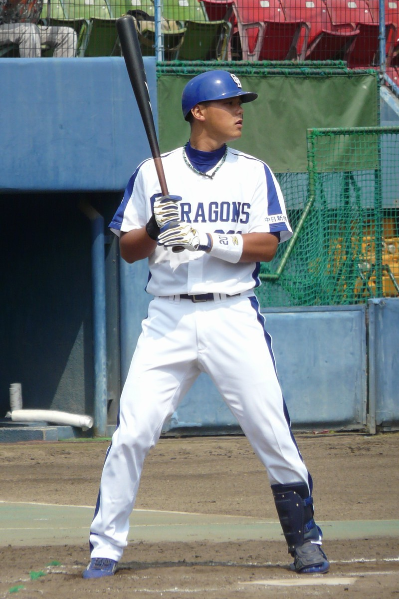 Satoshi-Kato